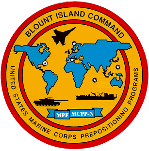 Insignia for the United States Marine Corps' Blount Island Command